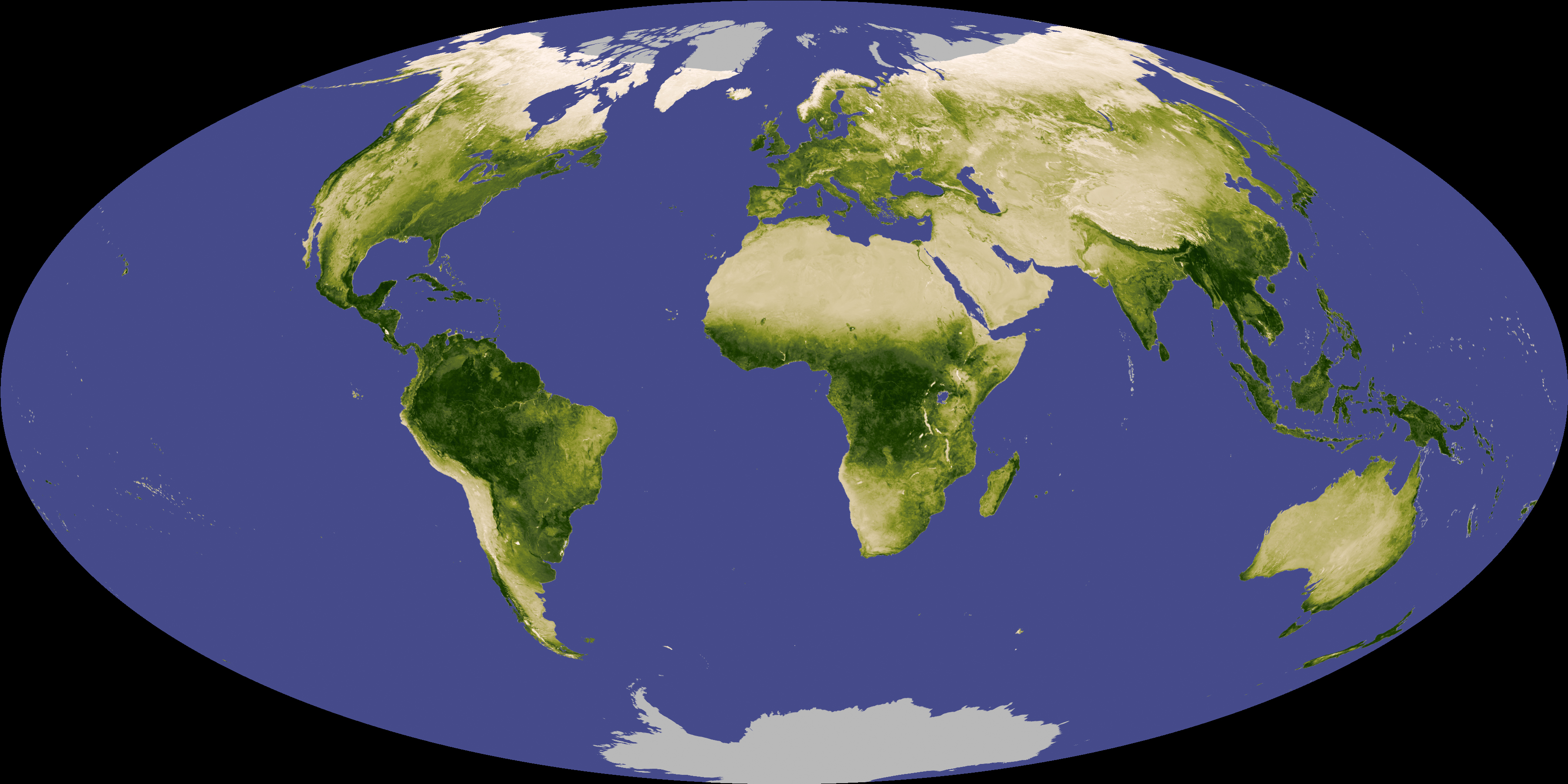 Normalized Difference Vegetation Index (NDVI) from November 1, 2007, to December 1, 2007, during autumn in the Northern Hemisphere. Food, fuel, and shelter: vegetation is one of the most important requirements for human populations around the world. Satellites monitor how “green” different parts of the planet are and how that greenness changes over time. These observations can help scientists understand the influence of natural cycles, such as drought and pest outbreaks, on vegetation, as well as human influences, such as land-clearing and global warming.